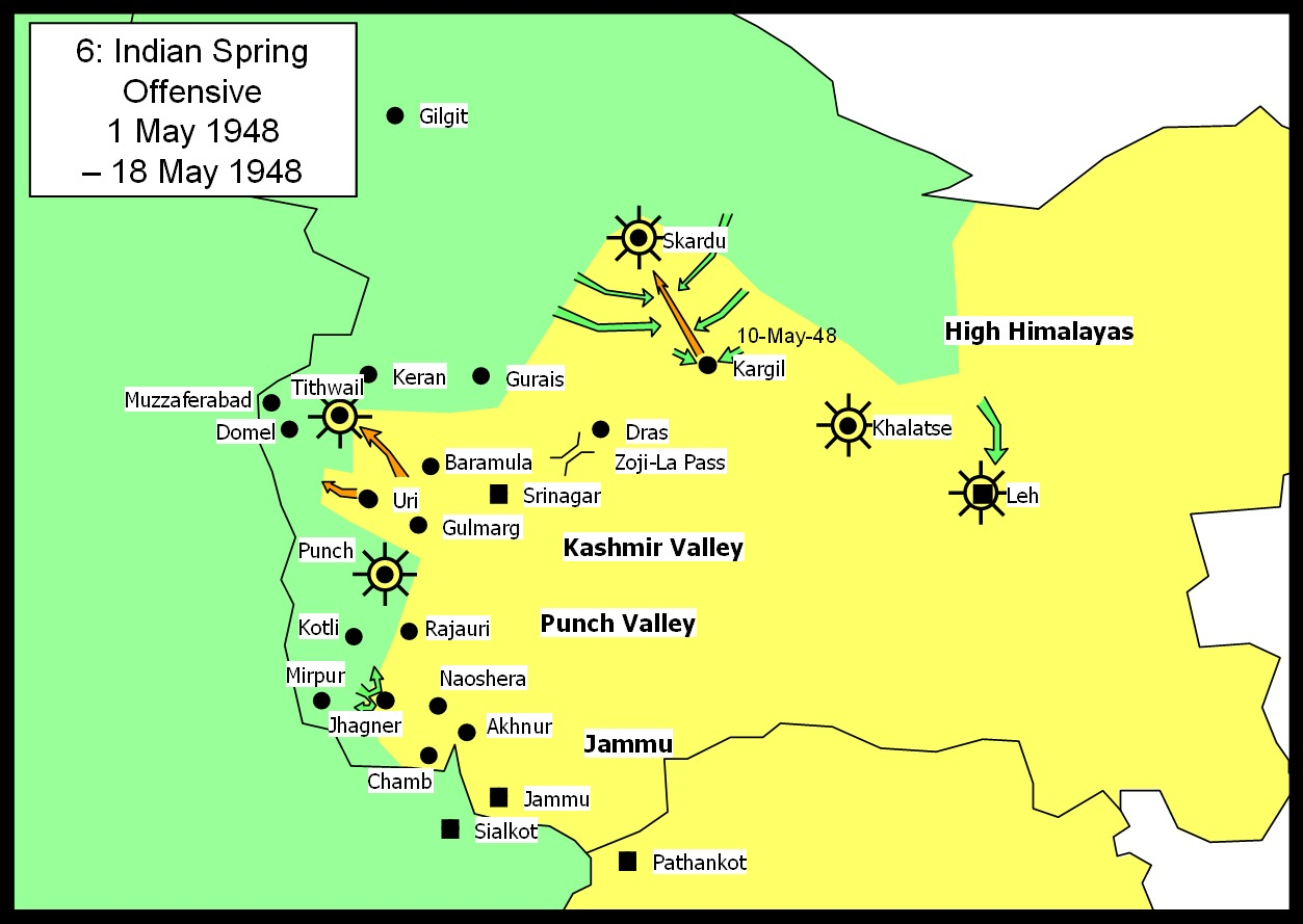 Author Mike Young